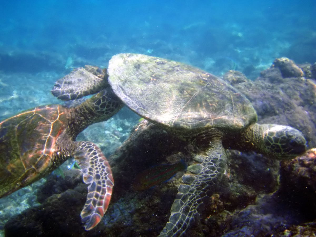 Courtship of Green Sea Turtles, Chelonia mydas on the Big Island of Hawaii